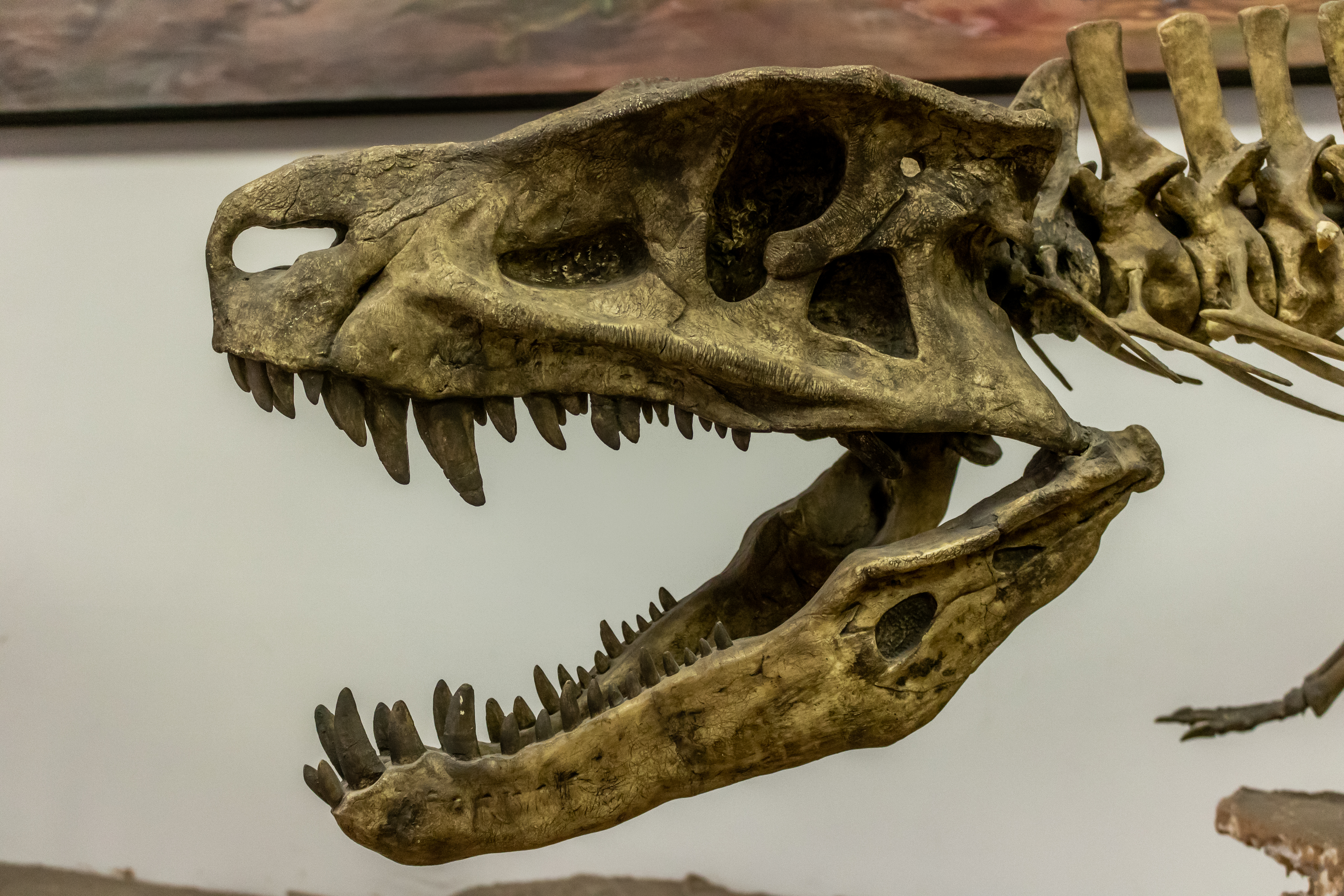 Petrified Forest National Park. Arizona. Dinosaur Fossil.